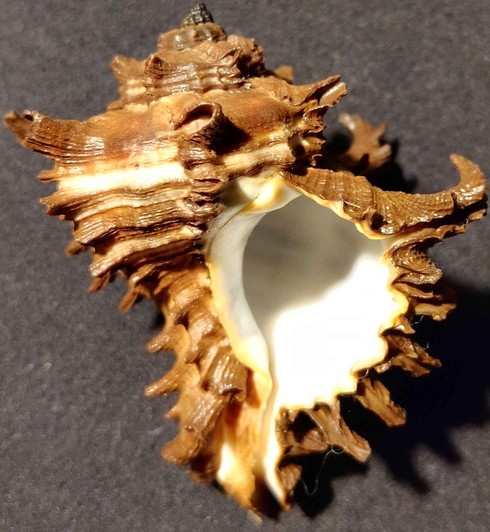 Hexaplex Cichoreum Front